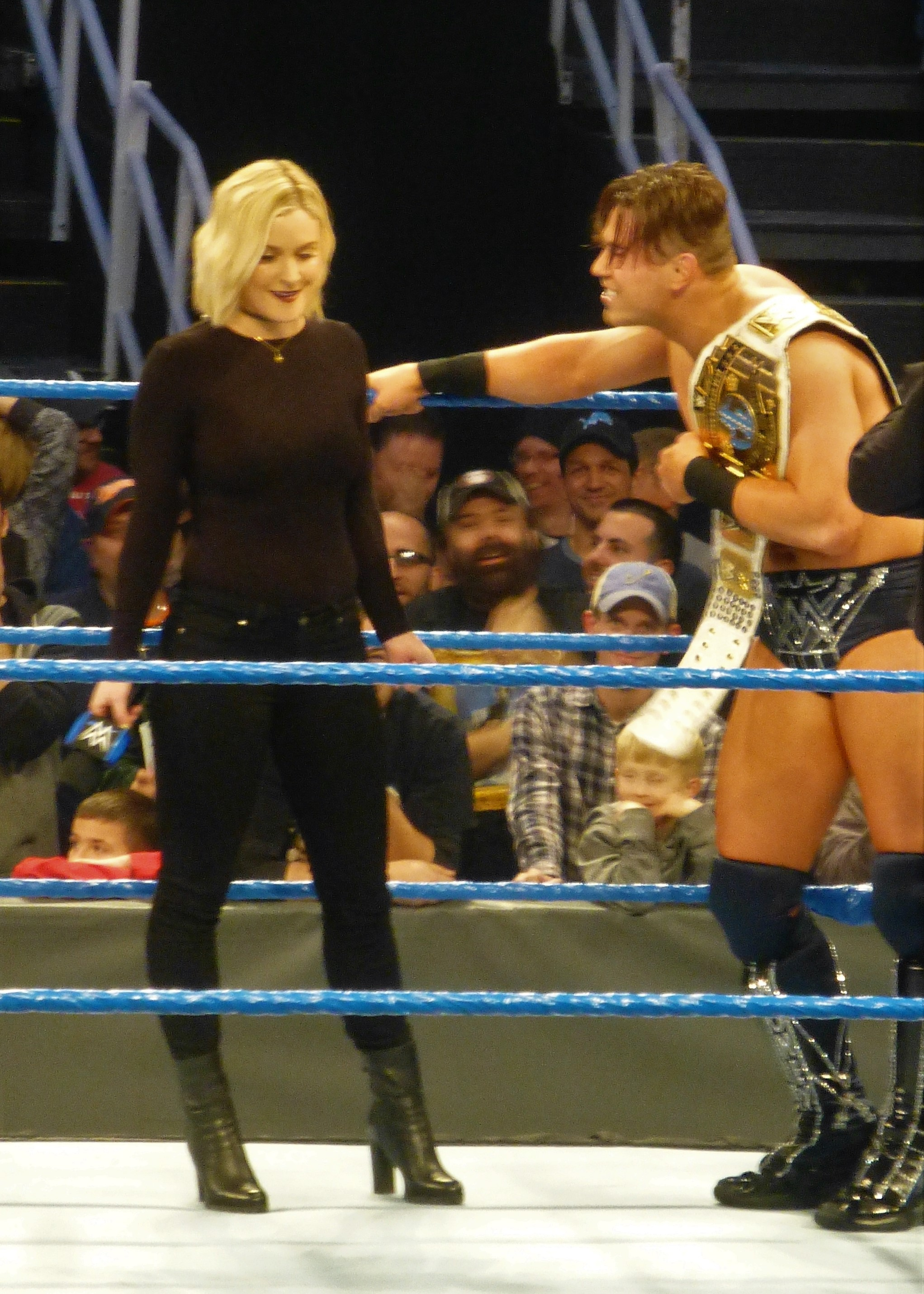 Renee Young and The Miz